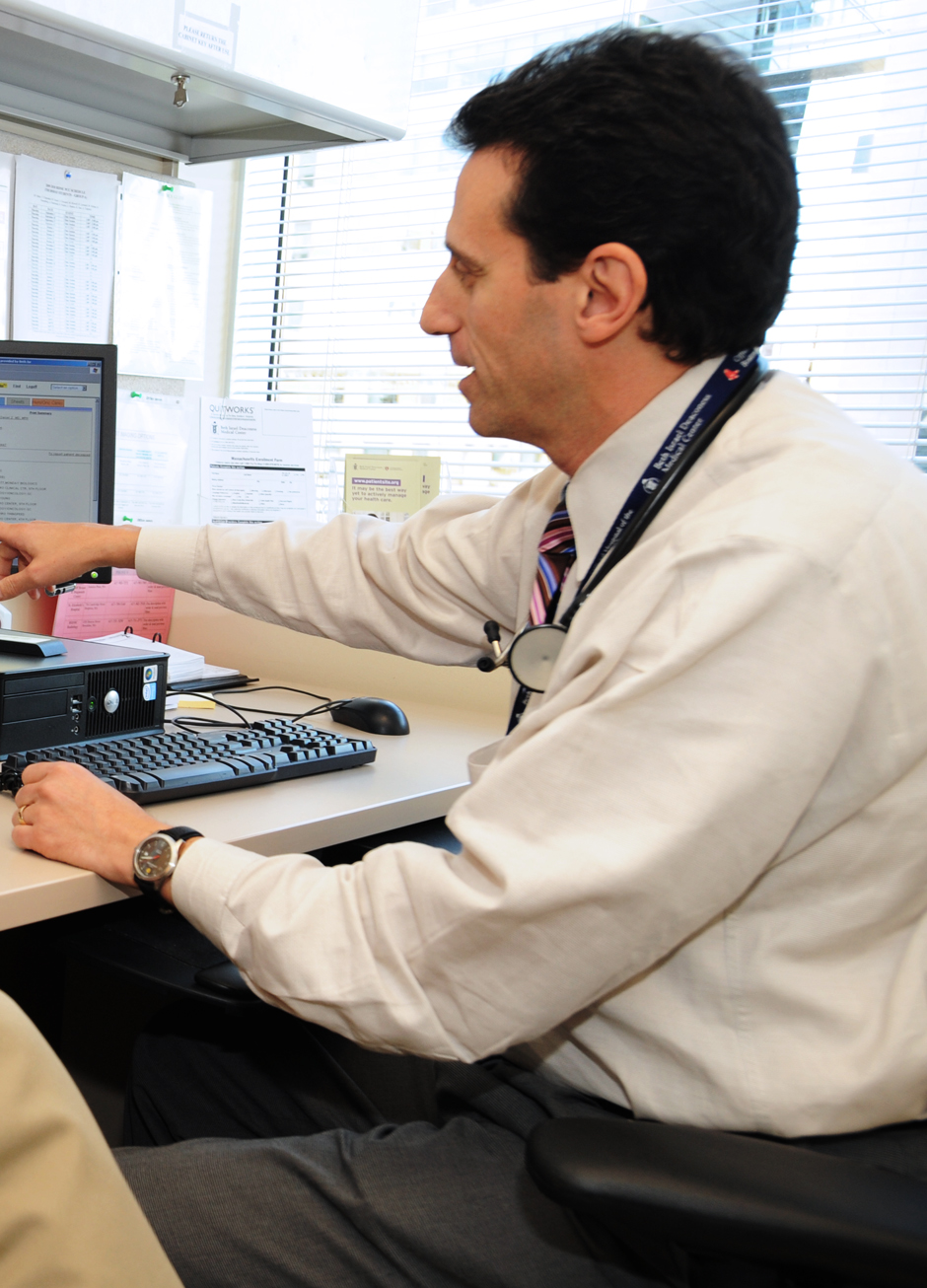 Dr. Danny Sands working with his patient e-Patient Dave deBronkart at the screen of their electronic medical record